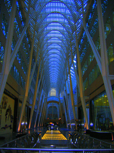 BCE Place Galleria in Toronto, Canada, designed by Santiago Calatrava